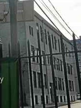 ITACS Chancery Lane campus